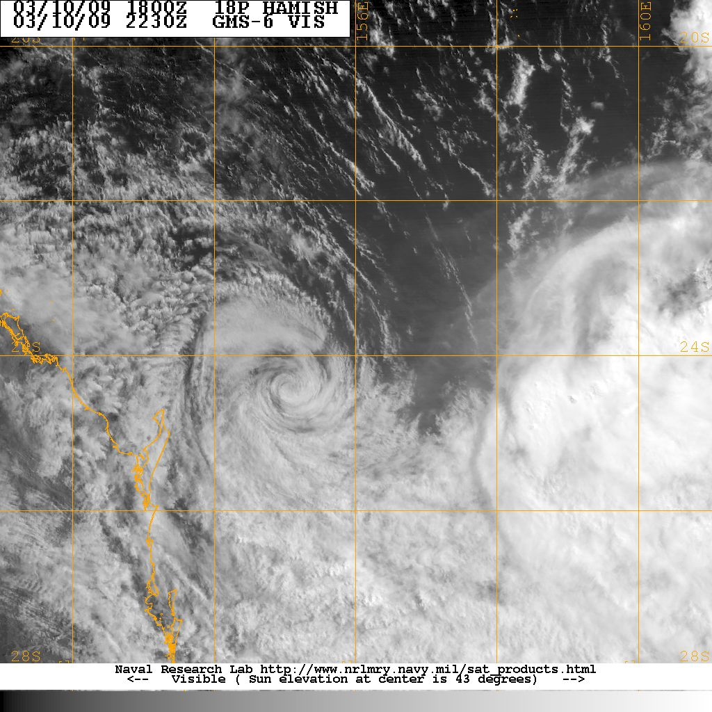 Cyclone Hamish after encountering strong wind shear